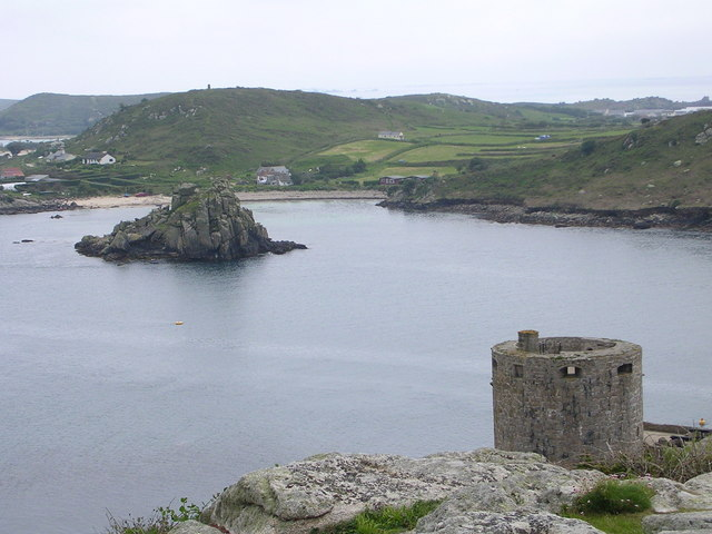 Cromwell's Castle, Tresco overlooking Bryher